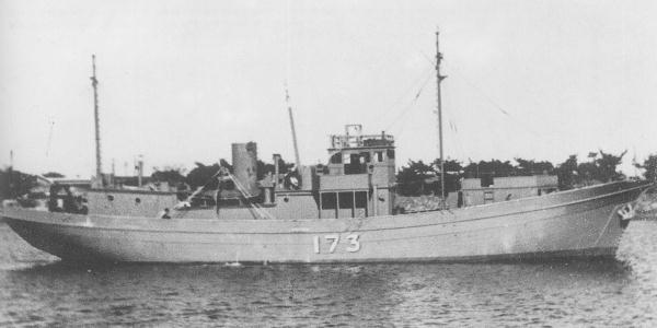 o.173 auxiliary patrol boat of the Imperial Japanese Navy at Tokushima Shipbuilding, Japan.